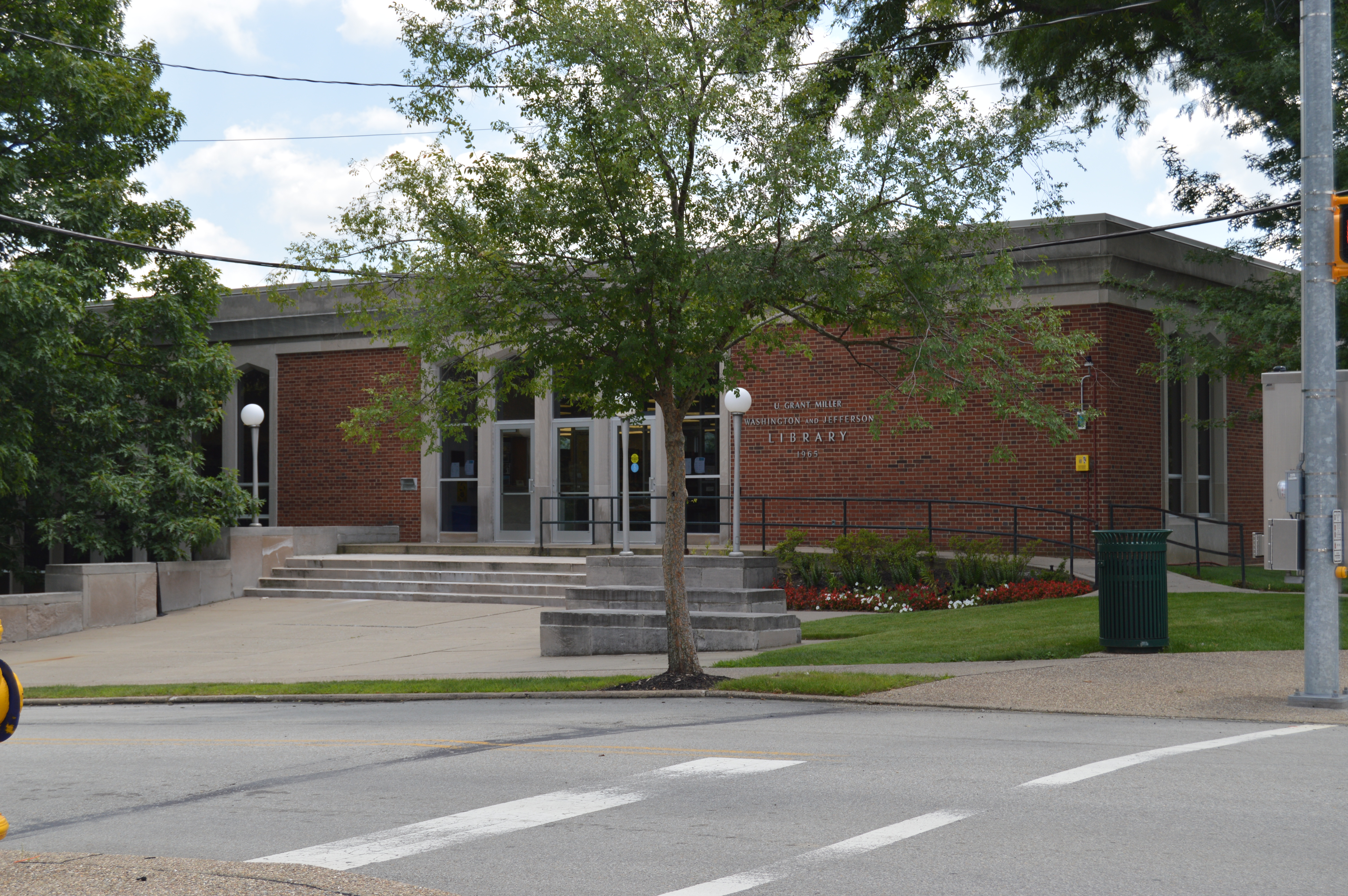 Picture of U. Grant Miller Library in Washington, Pennsylvania